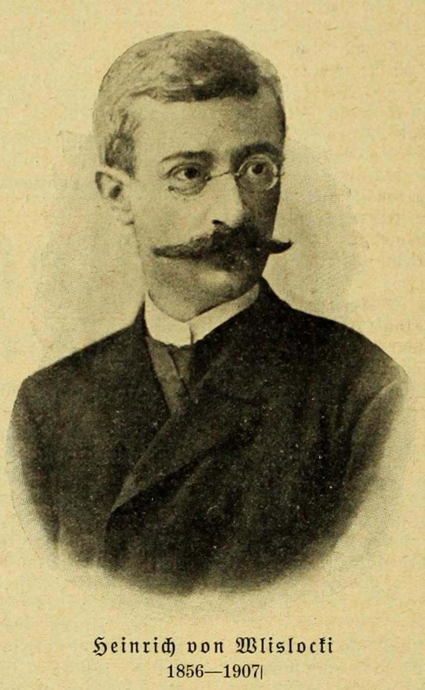 Heinrich von Wlislocki (1856–1907), from: Das literarische Echo, 9 (1907), 1633